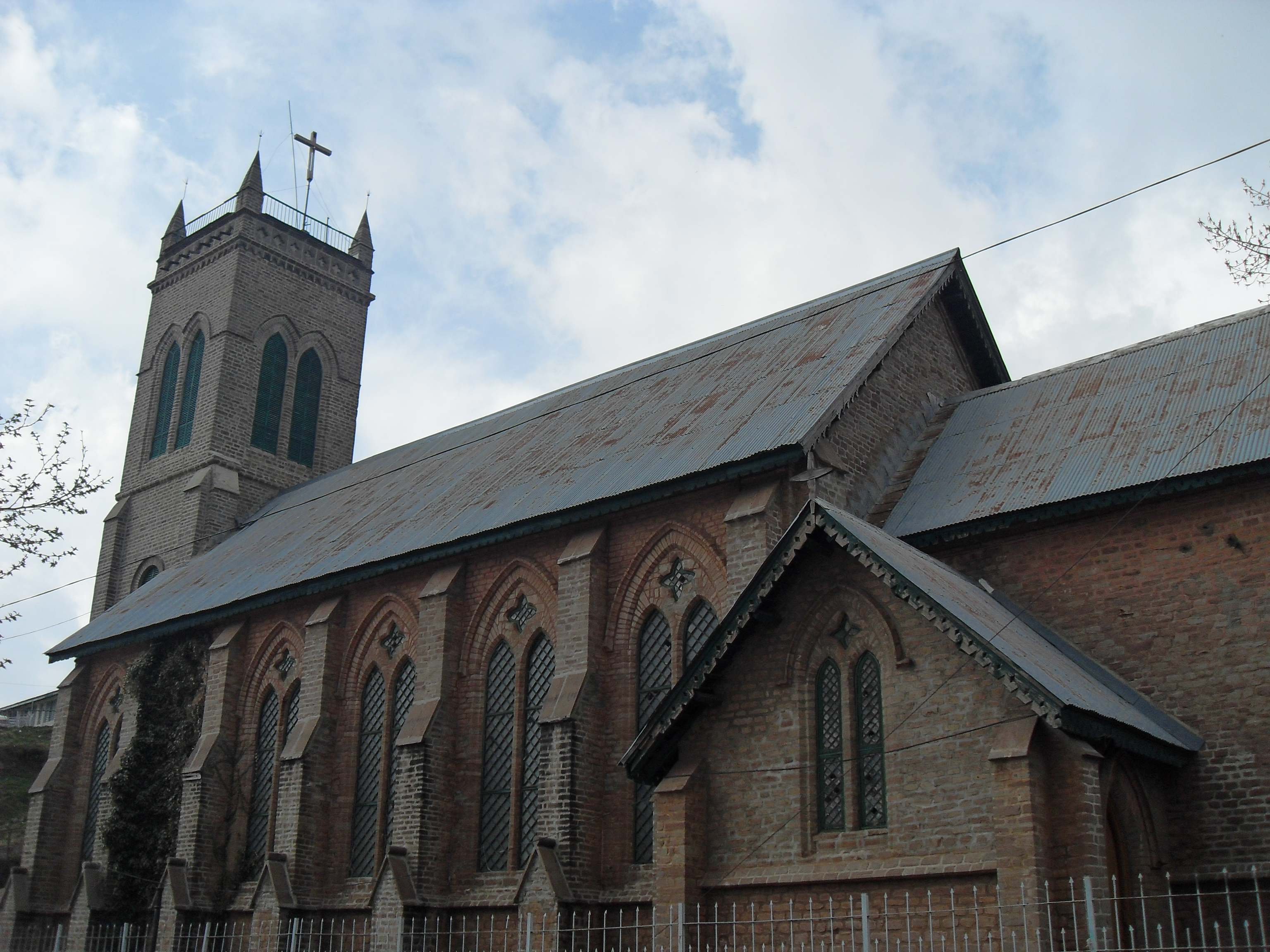 a beautiful church, St. Luke's Church at Mall Road, Murree, Pakistan